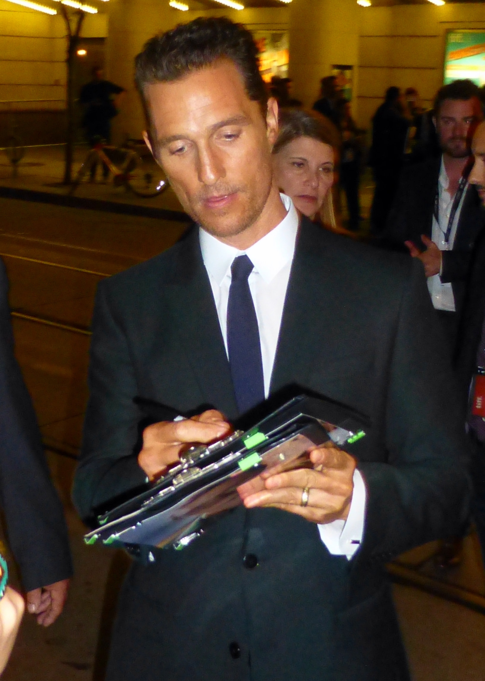 Matthew McConaughey at the premiere of Dallas Buyers Club, Toronto Film Festival 2013